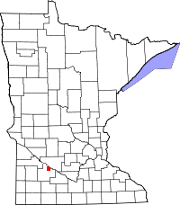 Location of lower sioux indian reservation